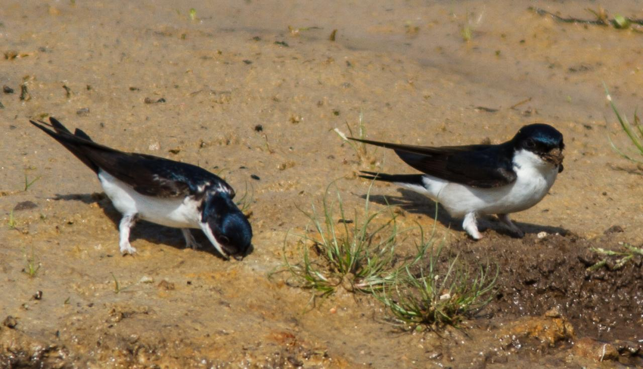 Common House Martins collecting mud for their nests in Midtjylland, Denmark.